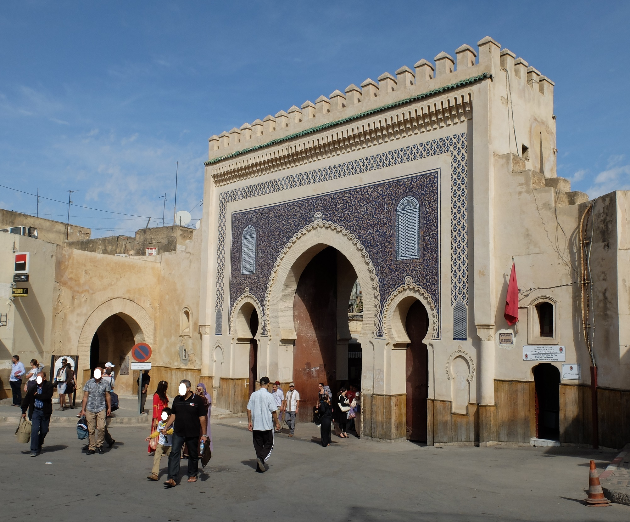 The monumental gate of Bab Bou Jeloud built by the French in 1913, along with the more modest original gate (on the left).